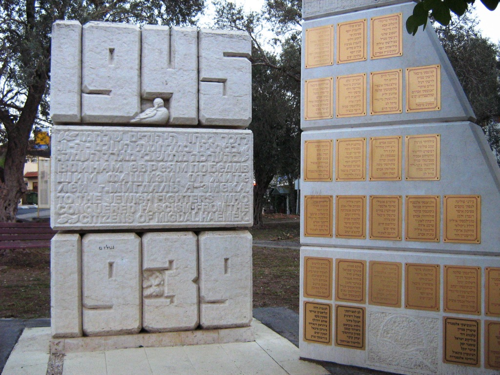 Geography of Israel